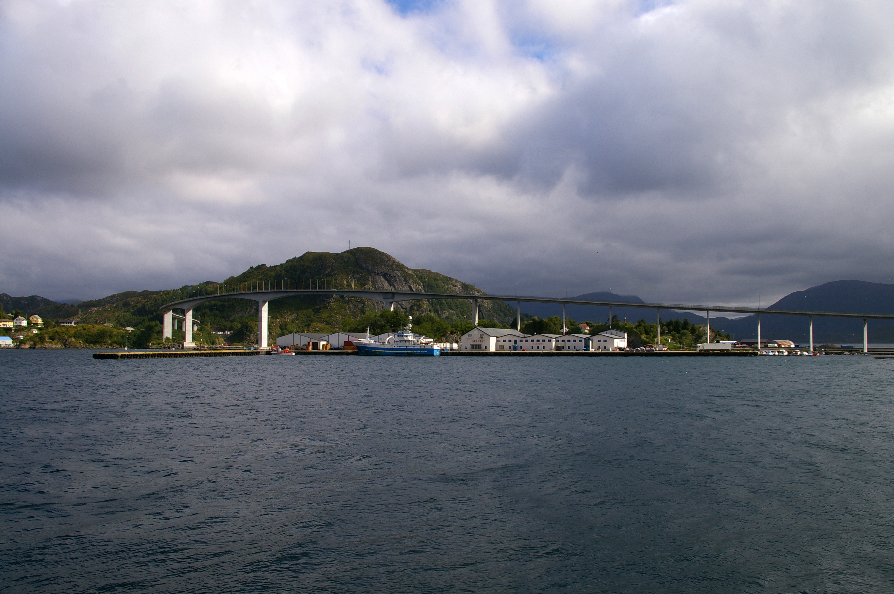 Måløy Bridge, Vågsøy, Sogn og Fjordane, Norway